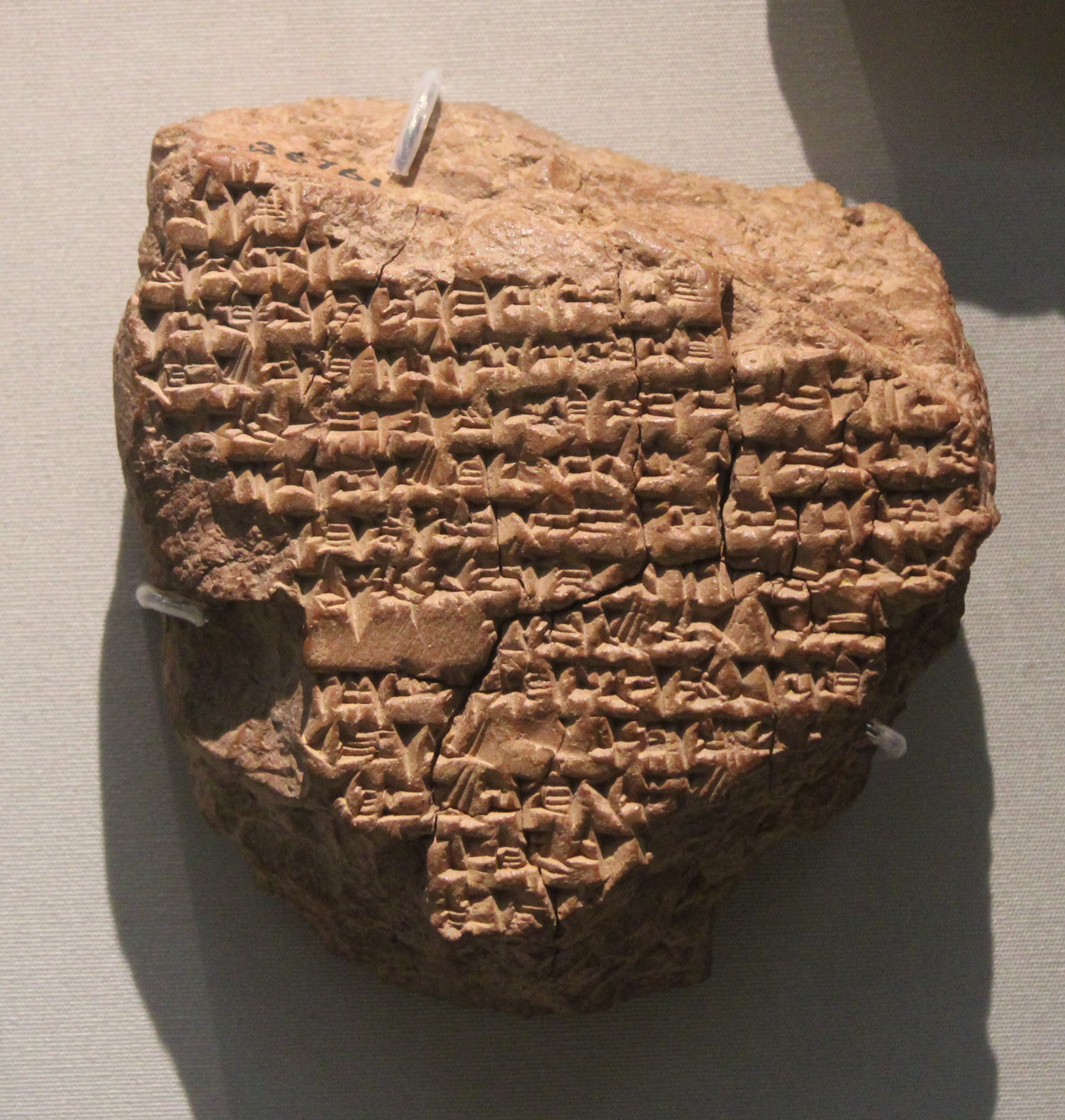 Clay cuneiform tablet, astronomical diary, mentions Alexander's defeat of Darius III at Gaugamela in 1 October 331 BC and his triuphal entry in Babylon. From Babylon, 331-330 BC.